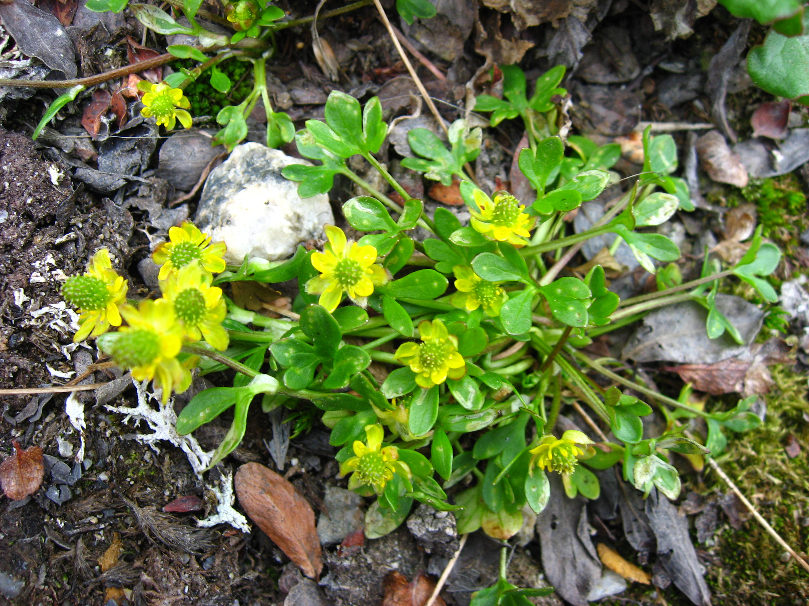 Solitary individual of Arctic Buttercup (Ranunculus hyperboreus) near small water bassin on the island of Upernavik, Greenland.